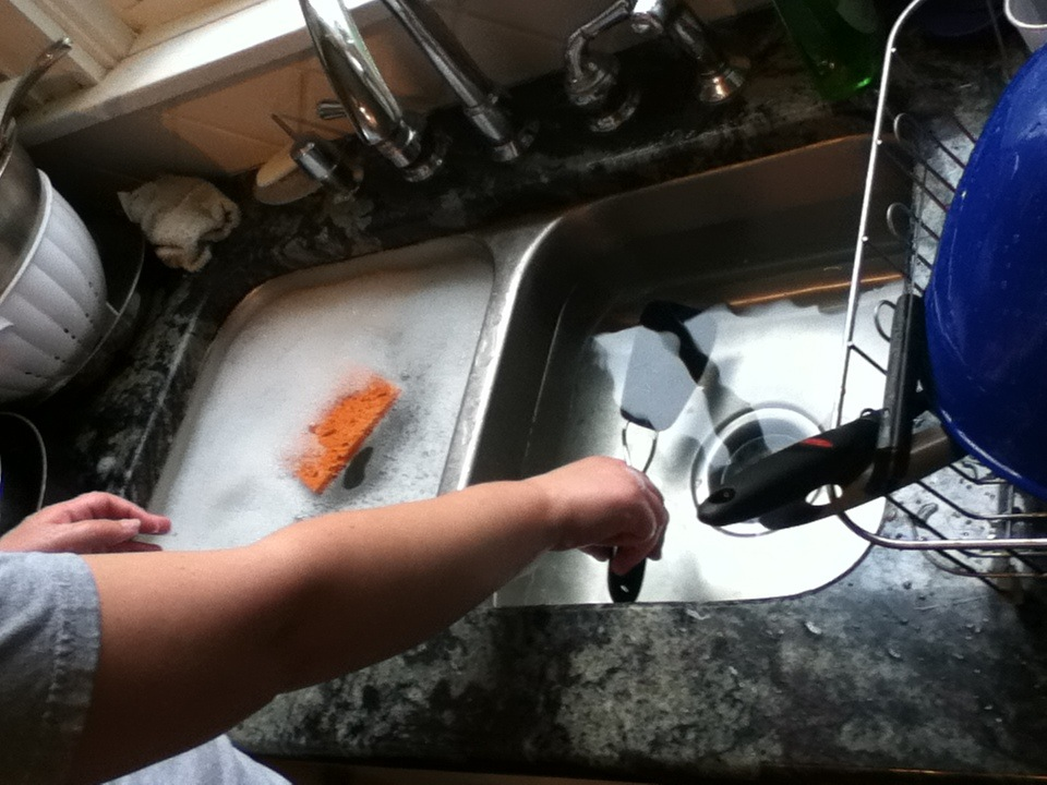 Hand washing dishes in a sink. On side is soapy water for washing; the other is clean water for rinsing